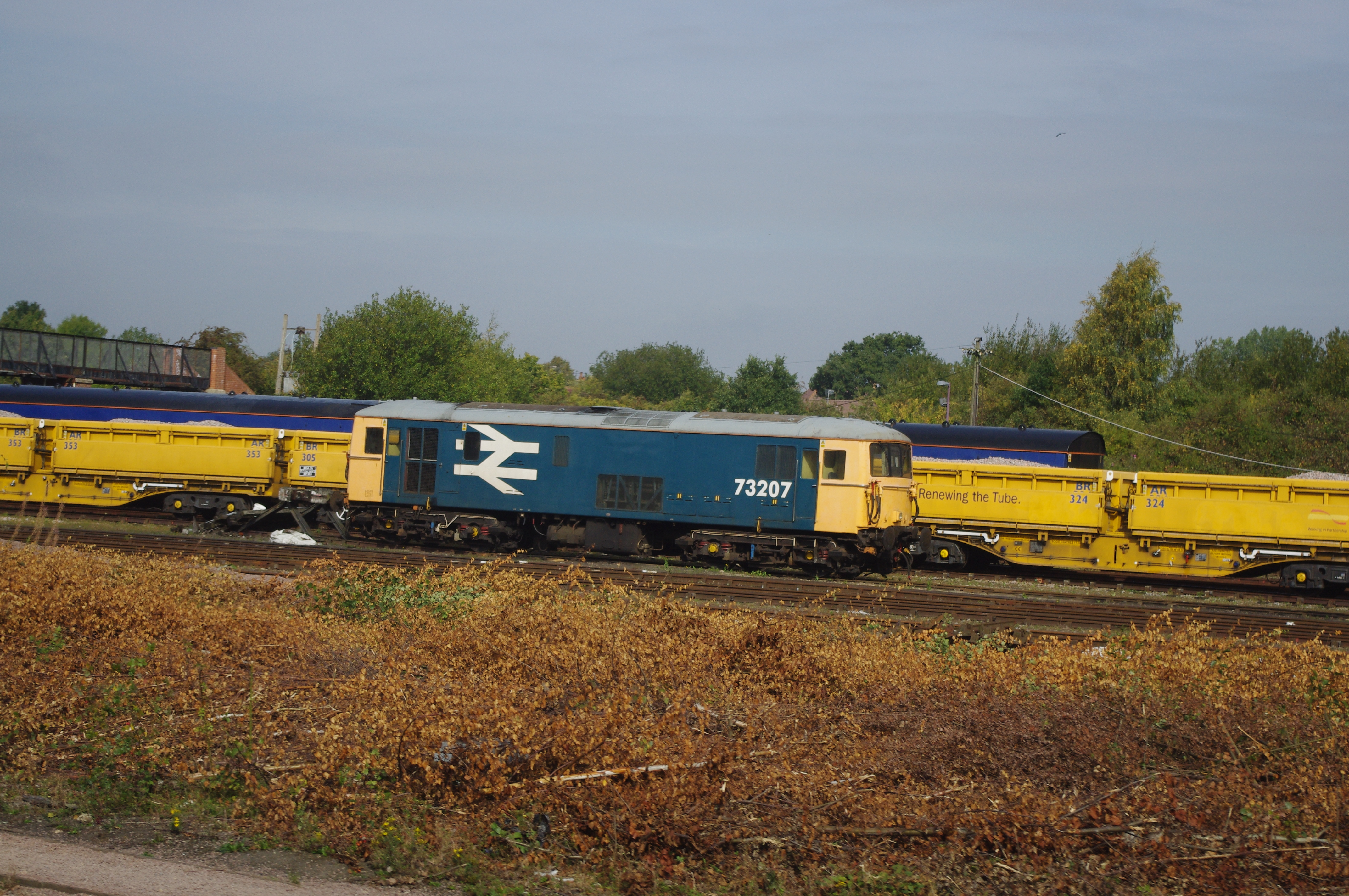 73207 in Tonbridge West Yard